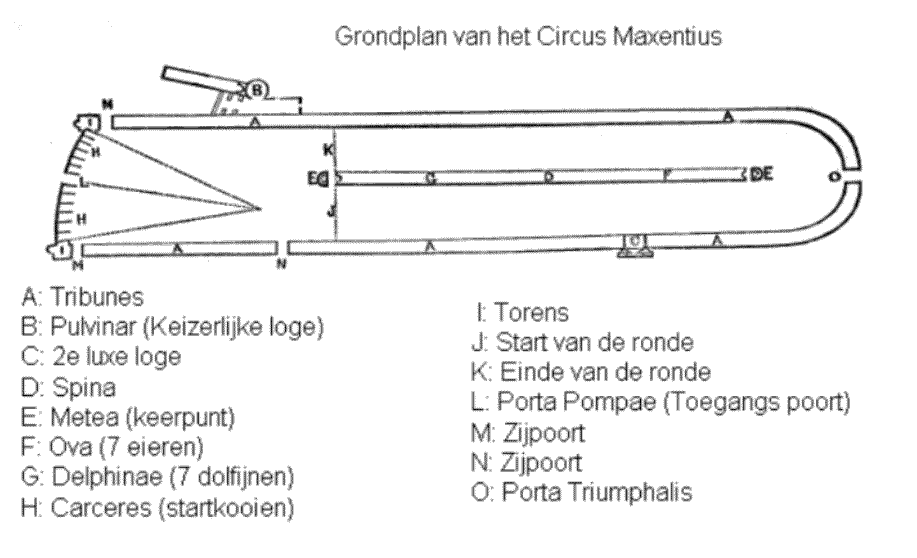 Floor plan of the Circus Maxentius, Rome, Italy.